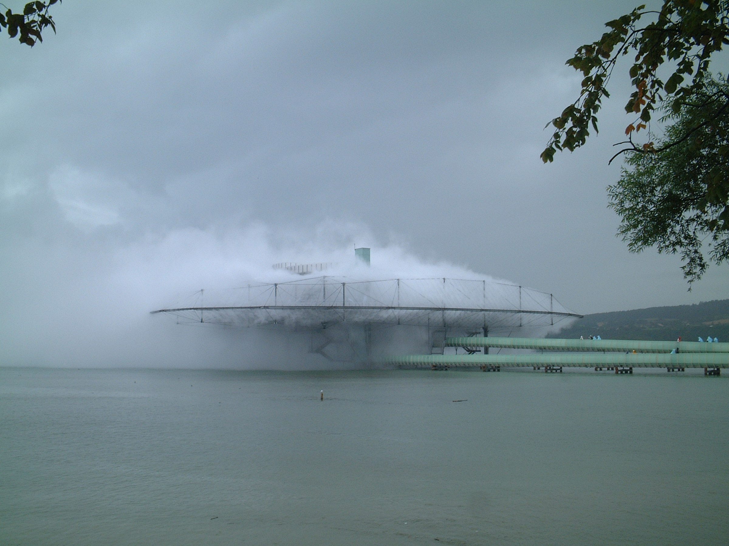 Expo.02 in Neuenburg, Yverdon, Biel and Murten (exact location see file name)